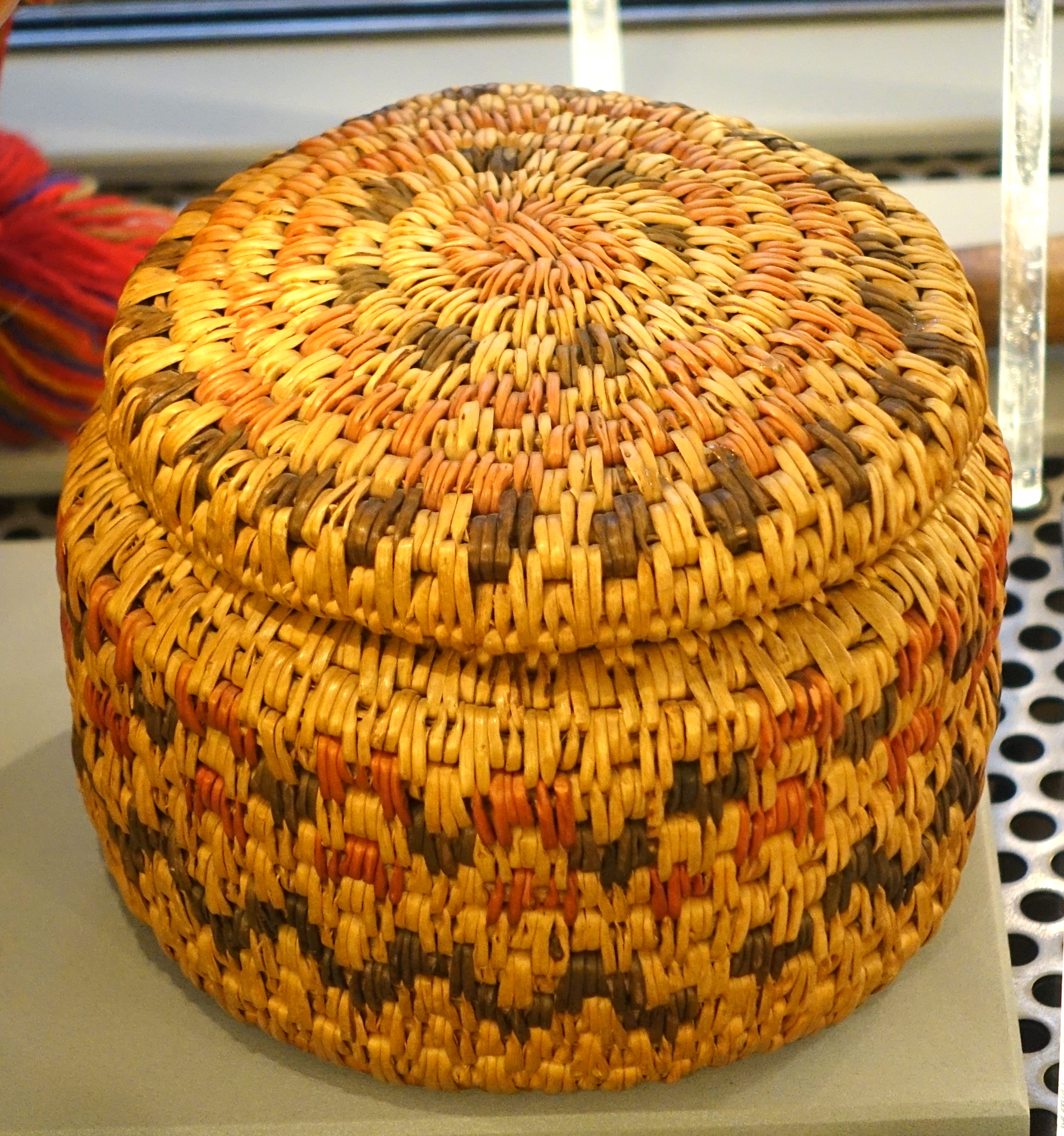 Sami basket in the Nordiska museet - Stockholm, Sweden.